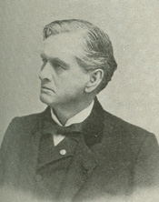 Former United States Representative from Illinois Benson Wood.